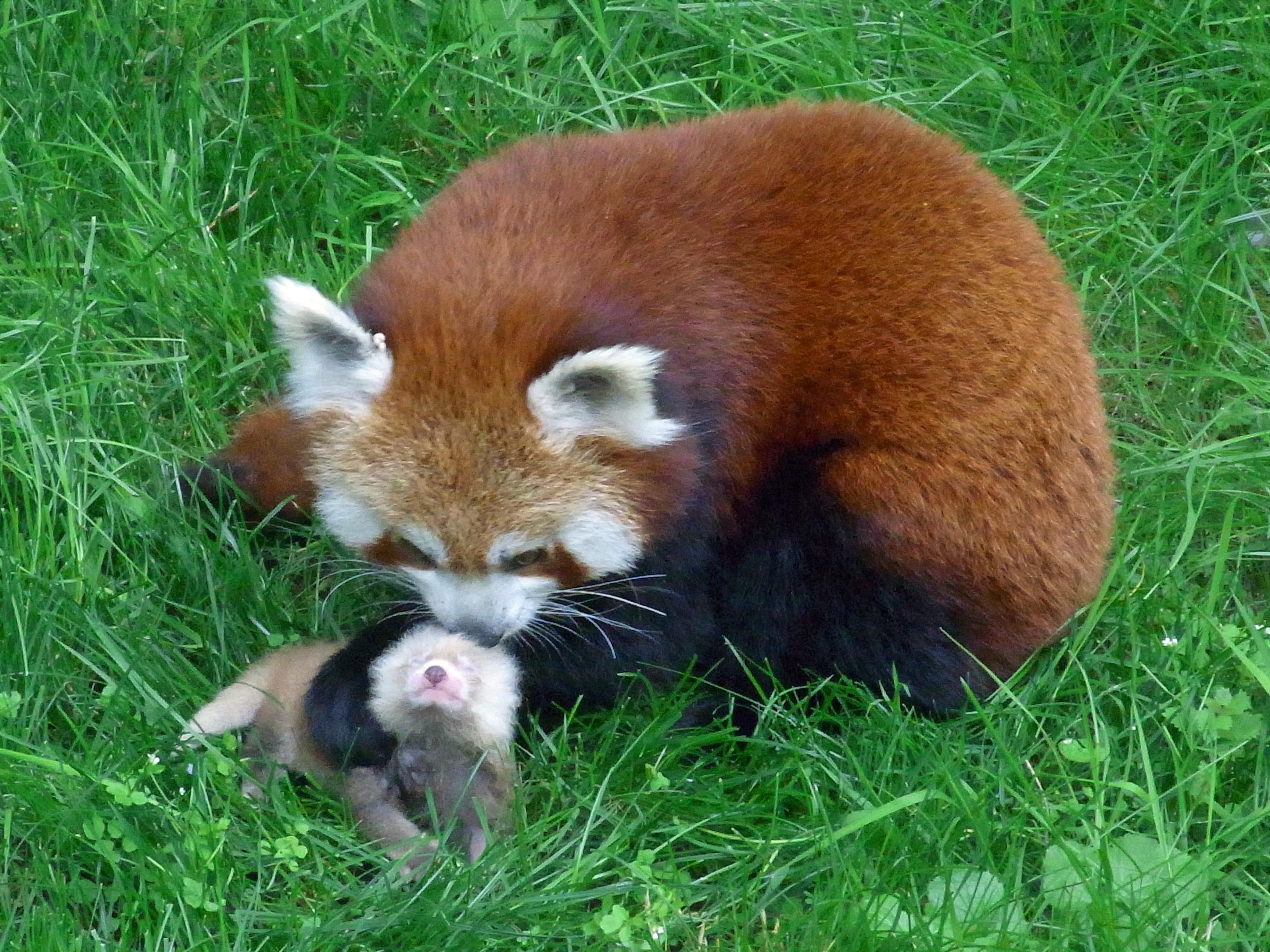 Red Panda tending offspring at Dortmund Zoo